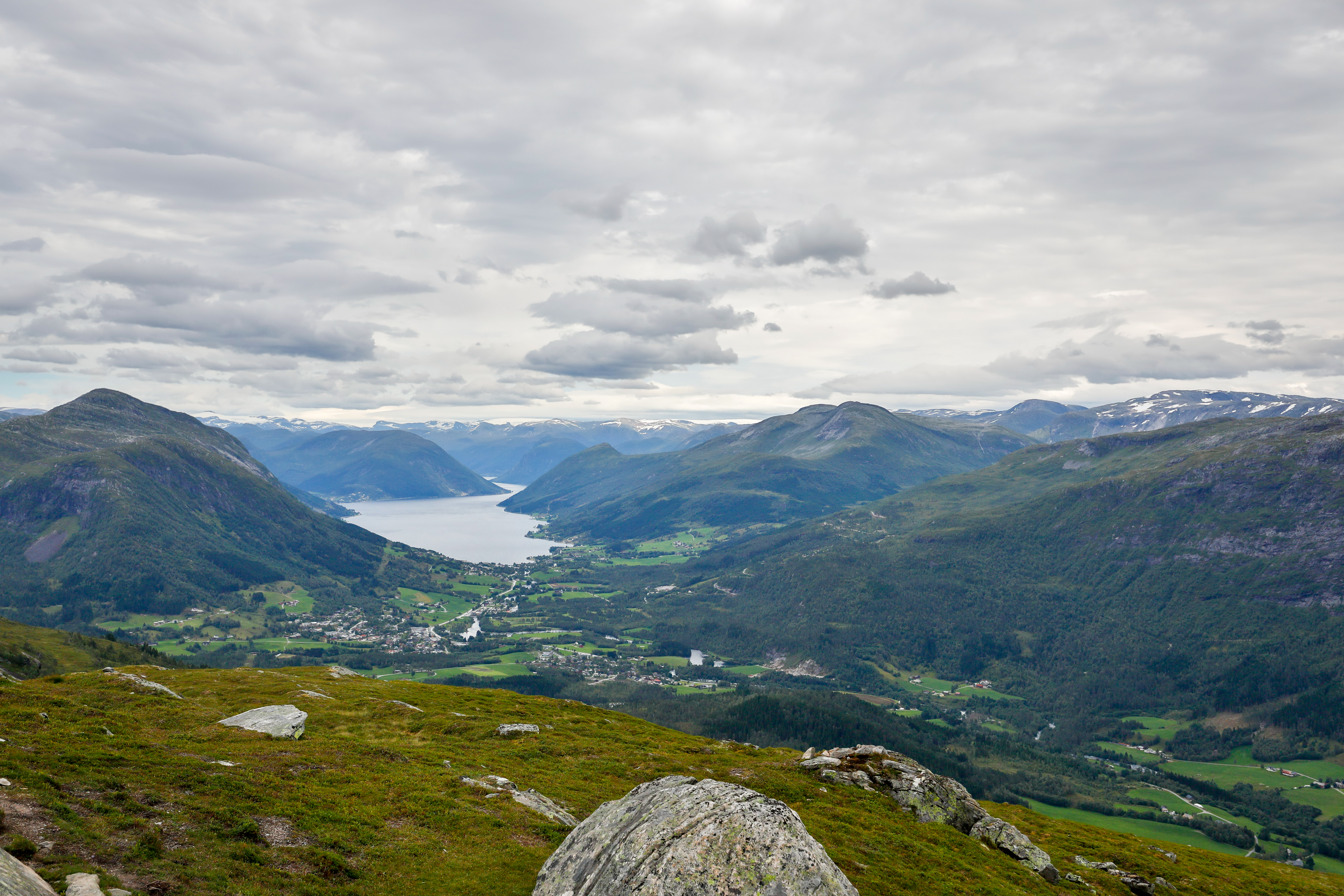 View from Eikåsnipa towards Jølstravatnet, Sunnfjord in Sogn og Fjordane, Western Norway.